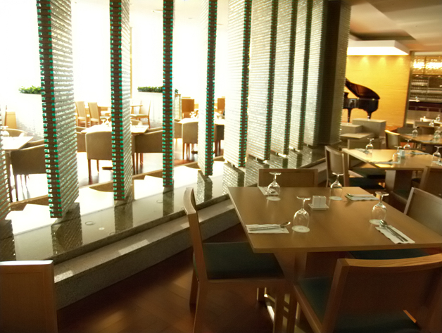 Club H. The most fancy faculty restaurant in Hanyang University